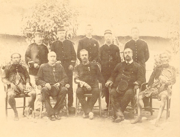 Officers_of_the_Lombok_expedition_in_1894